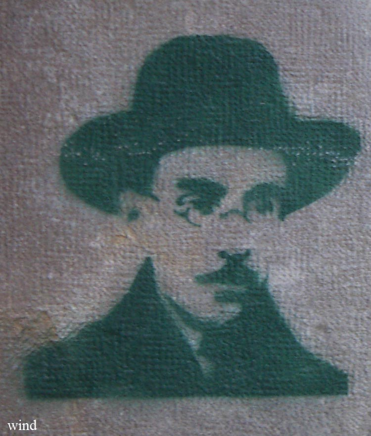 Graffiti of Fernando Pessoa in Baixa, Lisboa.